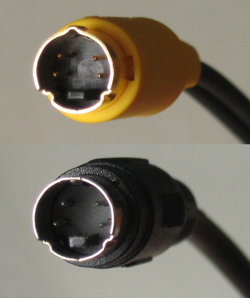 S-Video connector used in Japan